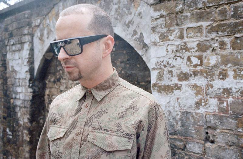 Press picture